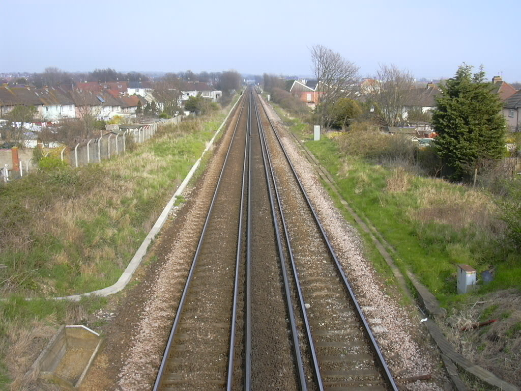 Photo of the West Coastway line (on south coast of England) from Fishersgate looking eastwards on 9 April 2007. I took this myself and hereby release it into the public domain.